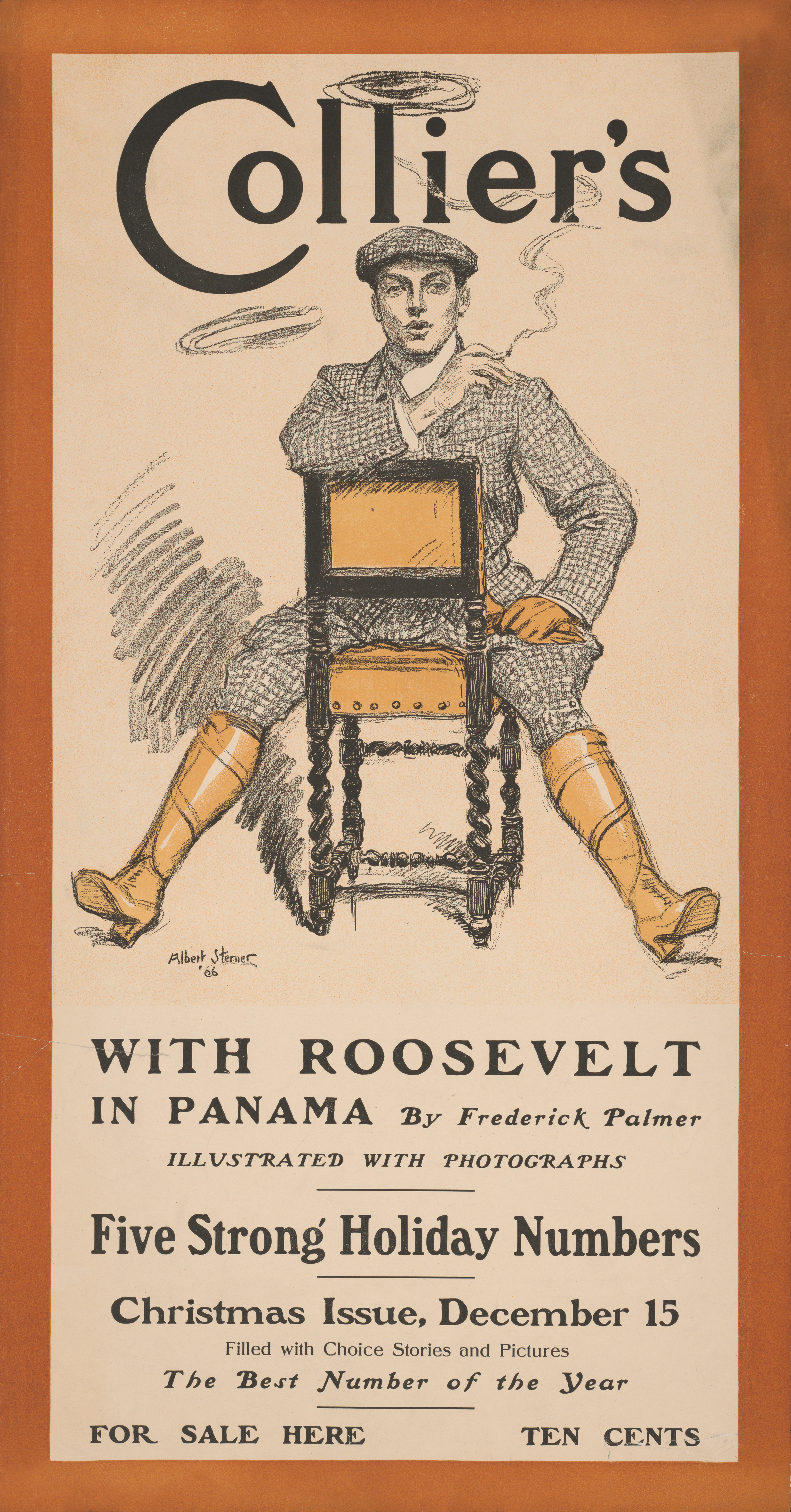 Poster for Collier's magazine With Roosevelt in Panama by Frederick Palmer, illustrated with photographs Five Strong Holiday Numbers Christmas Issue December 15, Filled with Choice Stories and Pictures